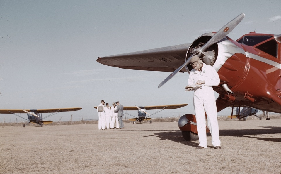 Title: [Civilian training school], students and instructors, Meacham Field, Fort Worth, Tex.